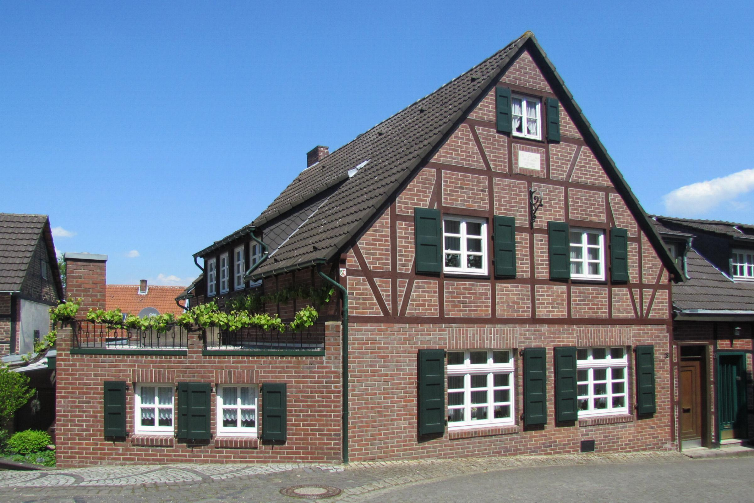 This is a photograph of an architectural monument.It is on the list of cultural monuments of Korschenbroich